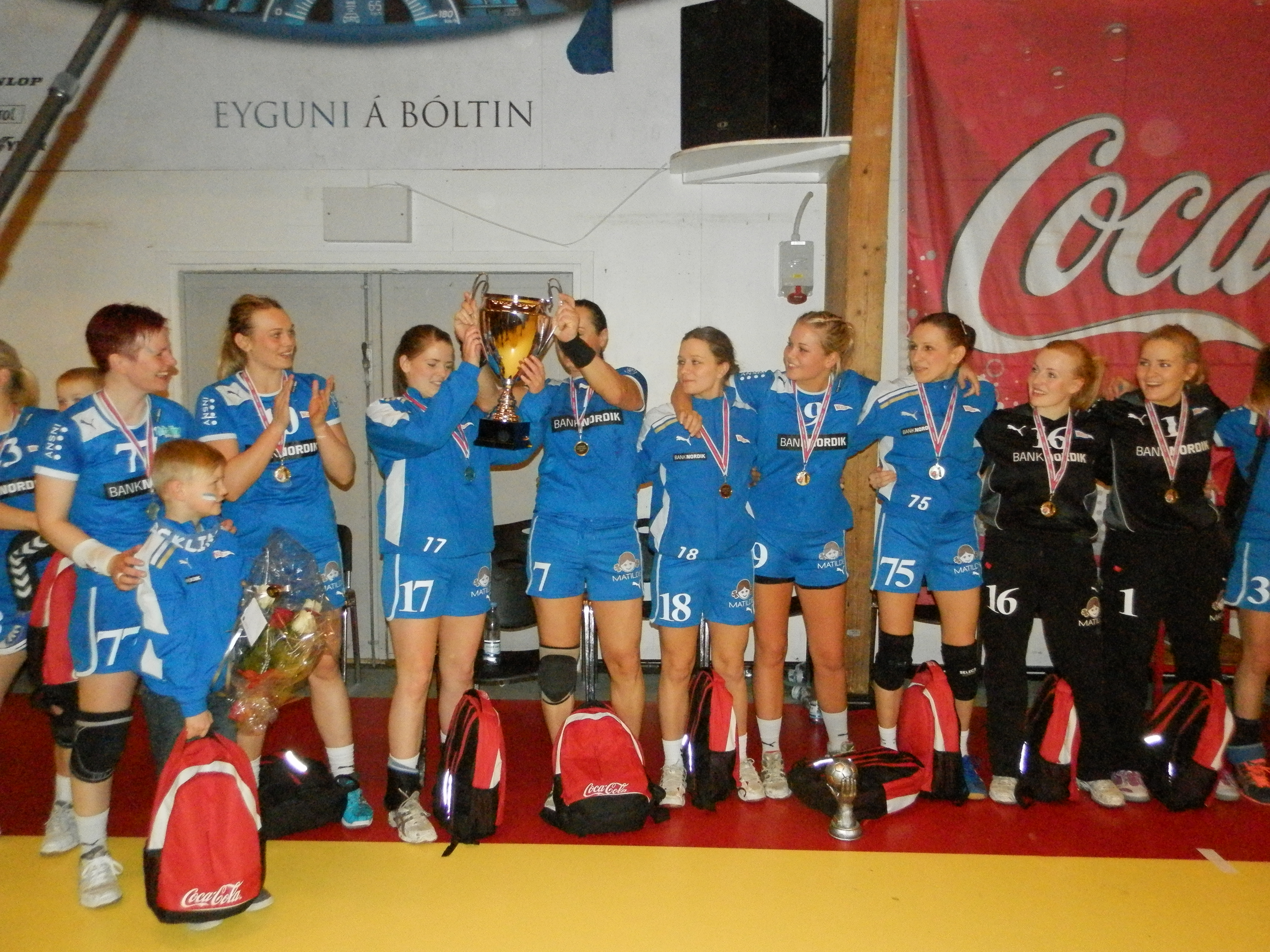 The women's handball final in the Faroe Islands Cup 2013 was played on 9 February 2013 in the sports hall on Nabb in Tórshavn, Faroe Islands. The final was between VB from Vágur and Neistin from Tórshavn. Neistin won the final 27-24. Føroyskt: Steypafinalan 2013 hjá kvinnum í hondbólti millum VB og Neistan varð leikt í Høllini á Nabb (á Hálsi) í Havn hin 9. februar 2013. Neistin vann finaluna 27-24.